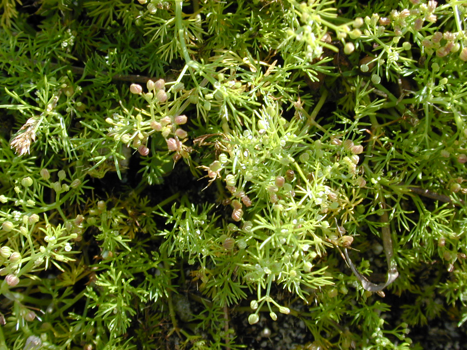 Cyclospermum leptophyllum (habit). Location: Kure Atoll, Inland